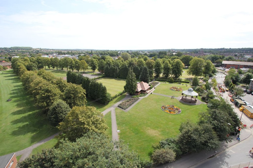 View of Victoria park Newbury with the bandstand on the right.